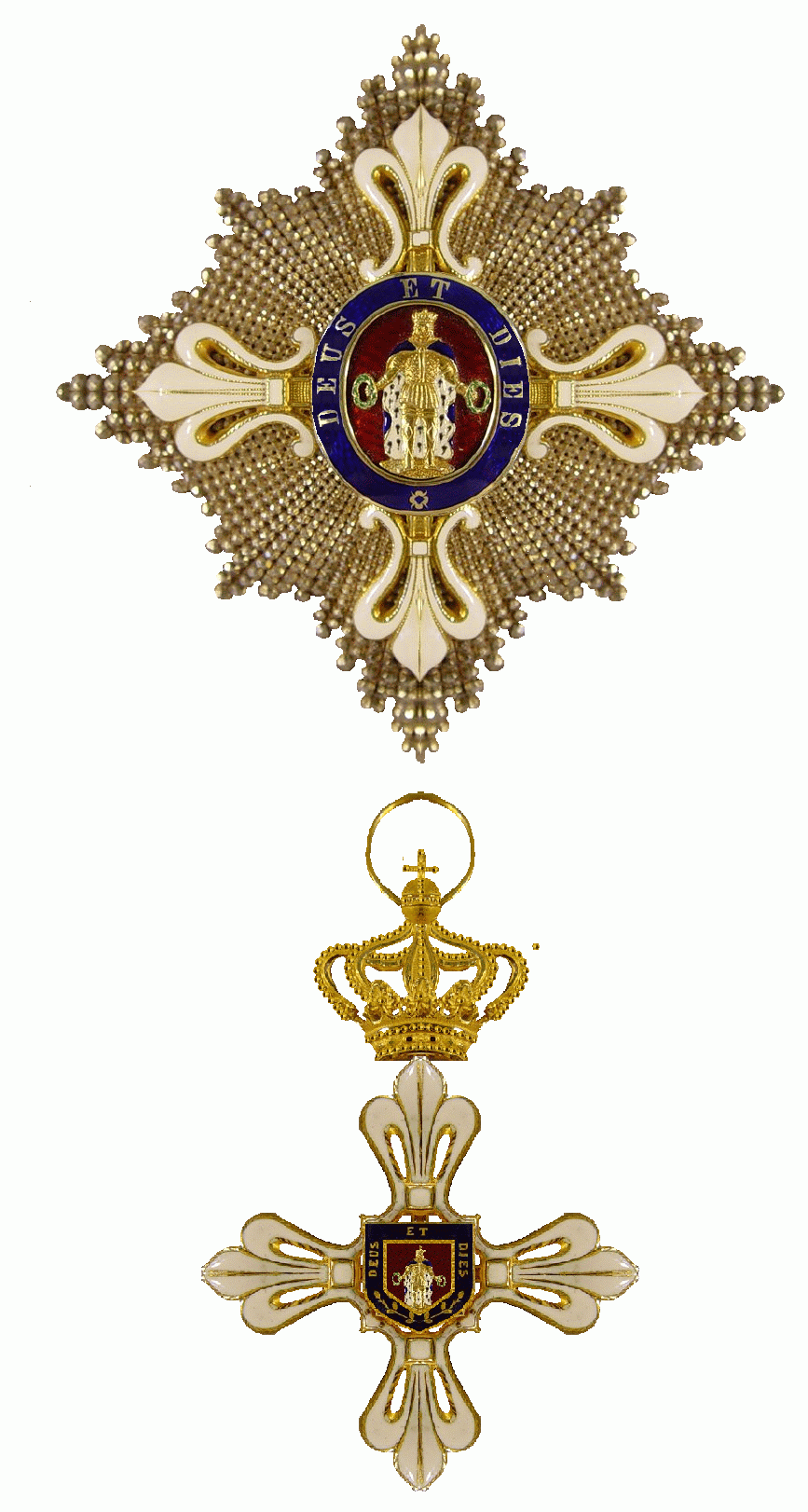 Order of the Holy Luis Parma Ordine del Merito di San Lodovico